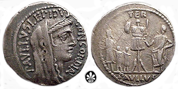 Aemilia 10 denarius Lucius Aemilius Lepidus Paullus AR Denarius. 62 BC. Veiled and diademed head of Concordia right, PAVLLVS LEPIDVS CONCORDIA around L Aemilius Paullus standing to right of trophy, Perseus and his two sons captive on the left, PAVLVS in ex. Babelon 10 Cr415/1 Syd 926.